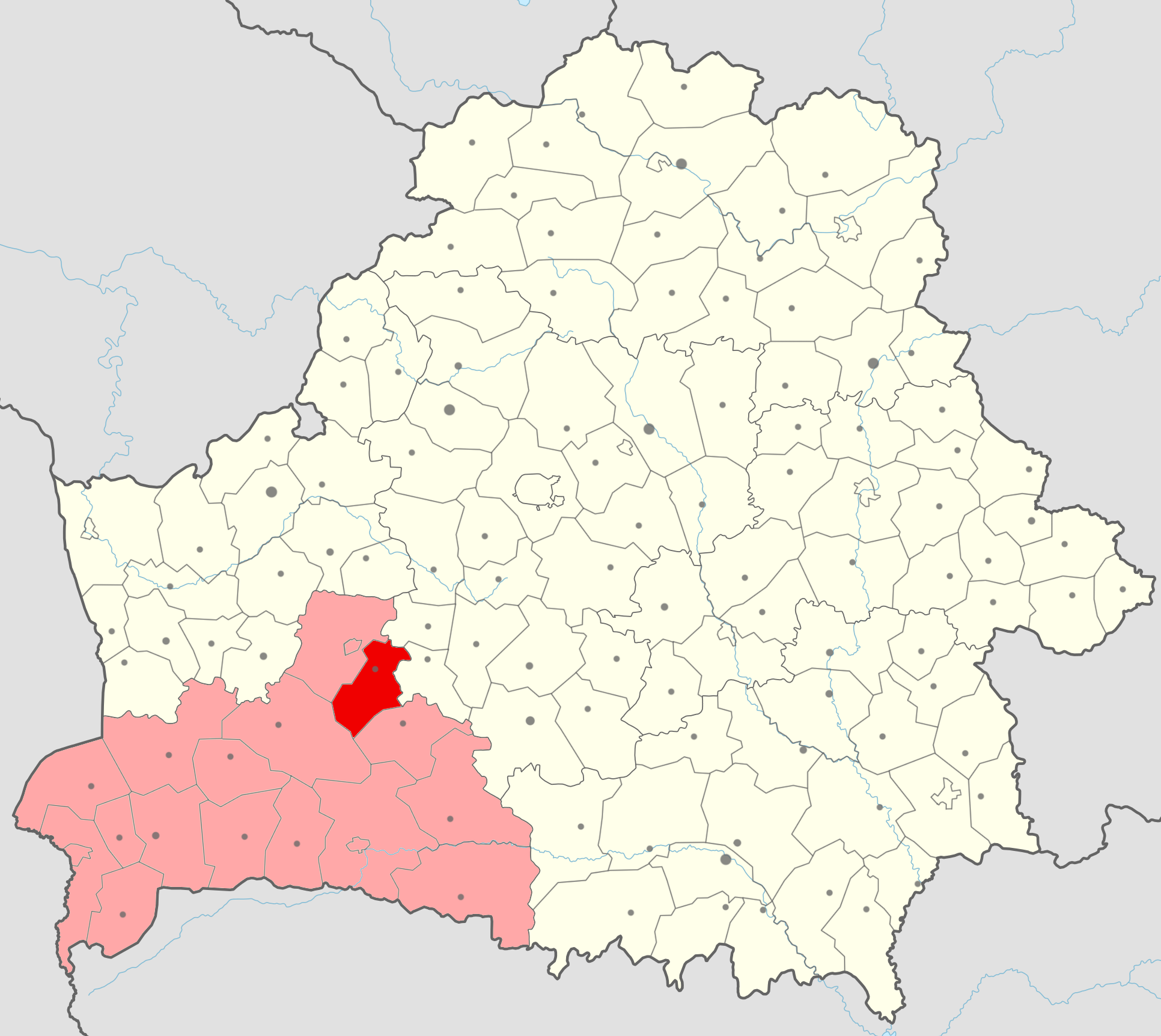 Location of Liachavicki rajon (red) in Bresckaja voblasć (light red) in Belarus.